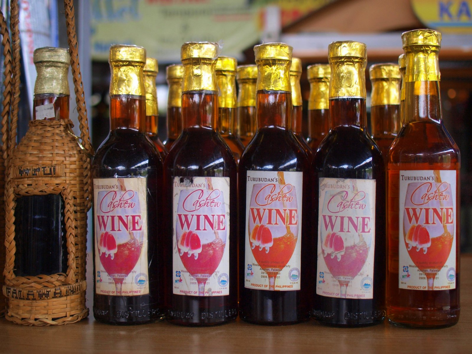 Cashew crop is used to produce wine / liquor in many parts of the world. This wine was produced in Bonifacio, Taguig, Philippines.